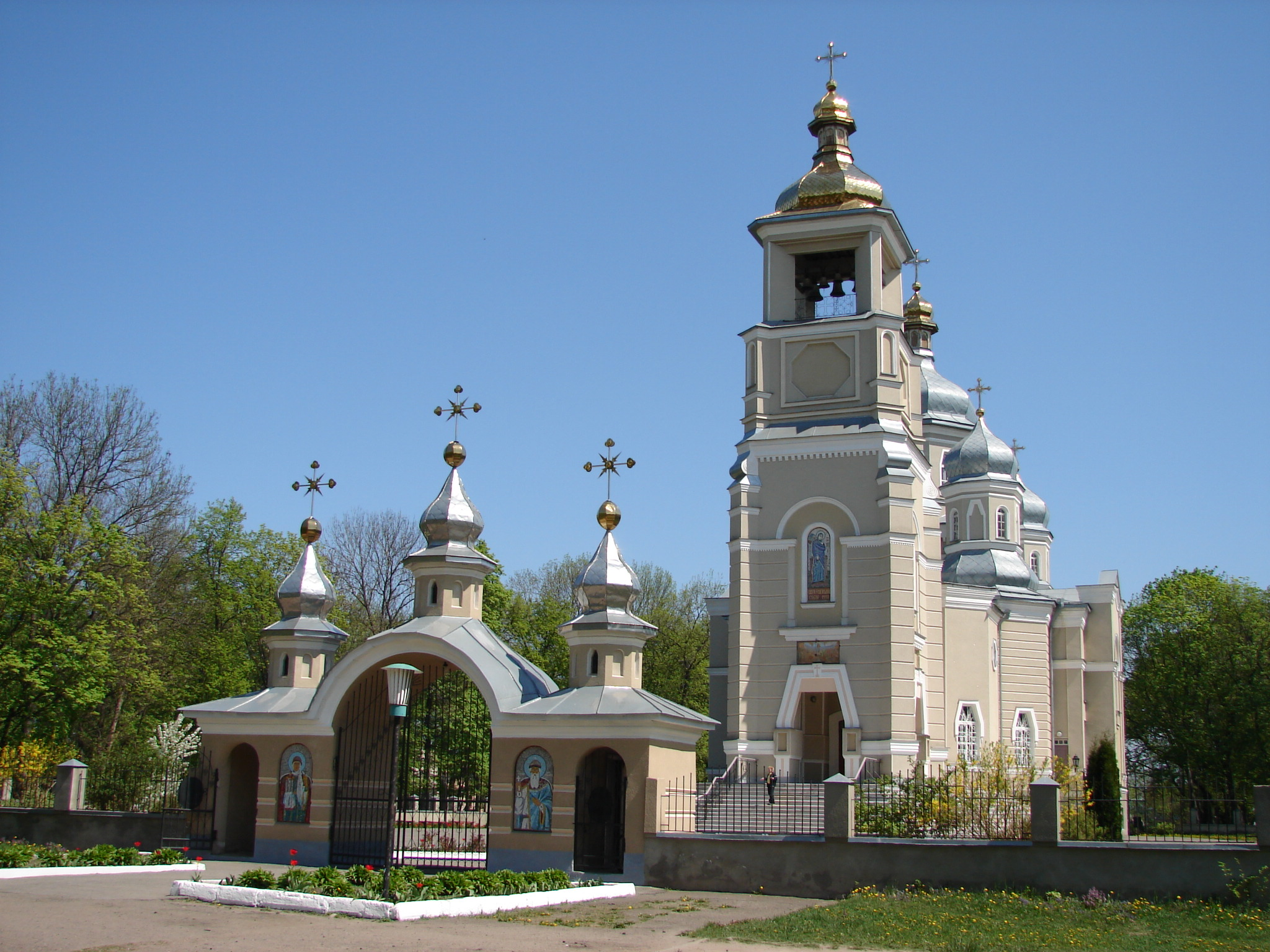 м. Гадяч